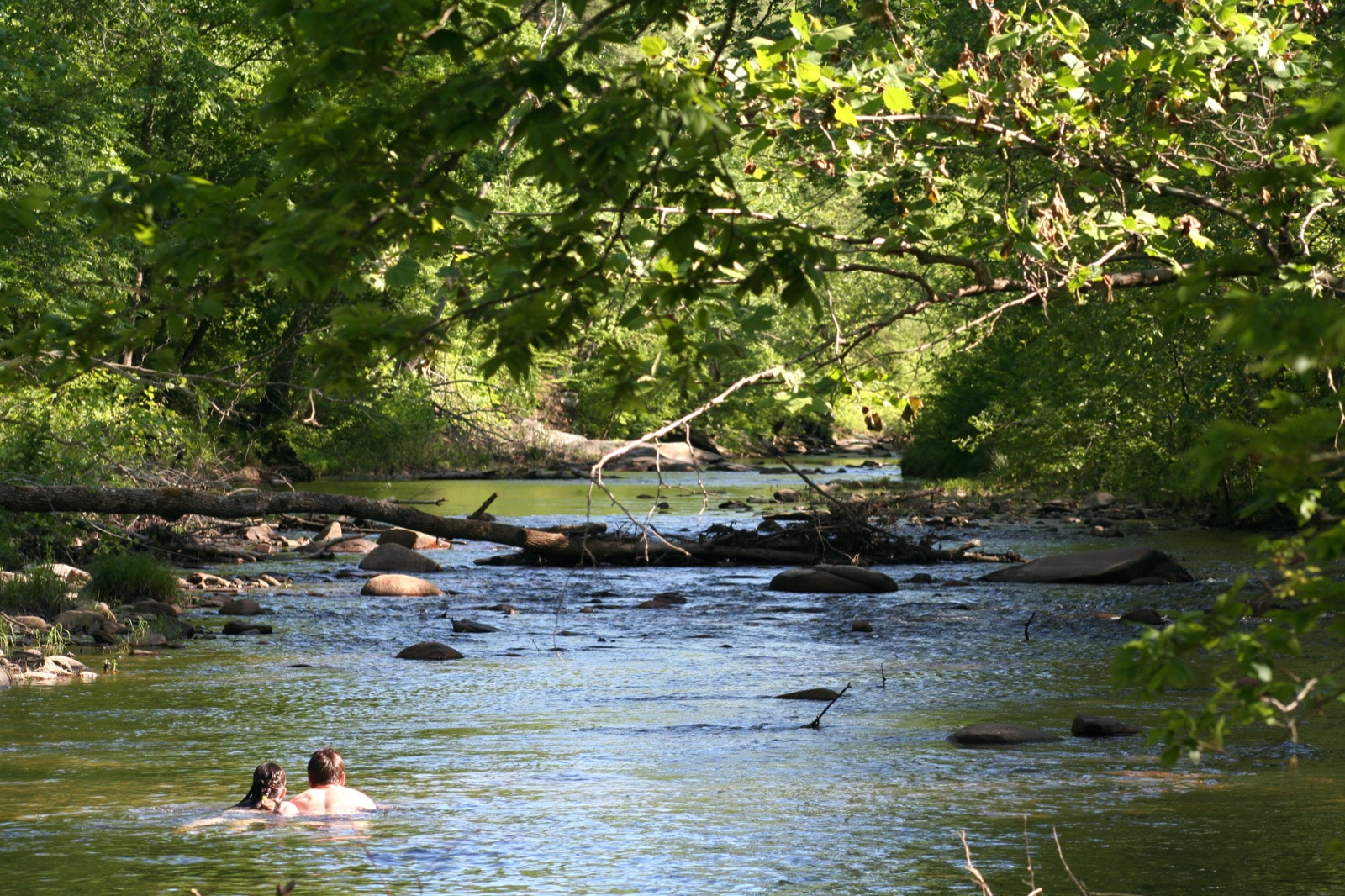 A couple swim upstream in the Rivanna River, in Free Union.